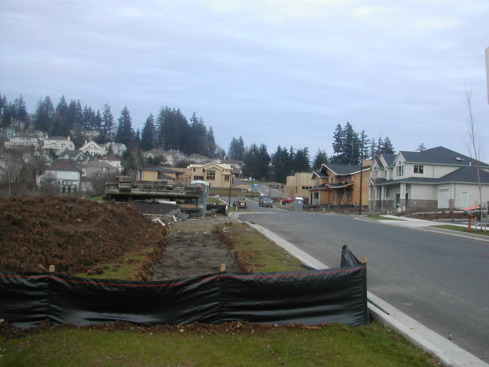 Happy Valley, Oregon. Taken by Adam Luchini.